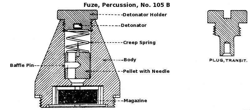 Diagram of British Percussion Fuze No. 105 B, World War I. Also known as the Boase fuze. As used with : 2 inch Medium Trench Mortar 9.45 inch Heavy Mortar